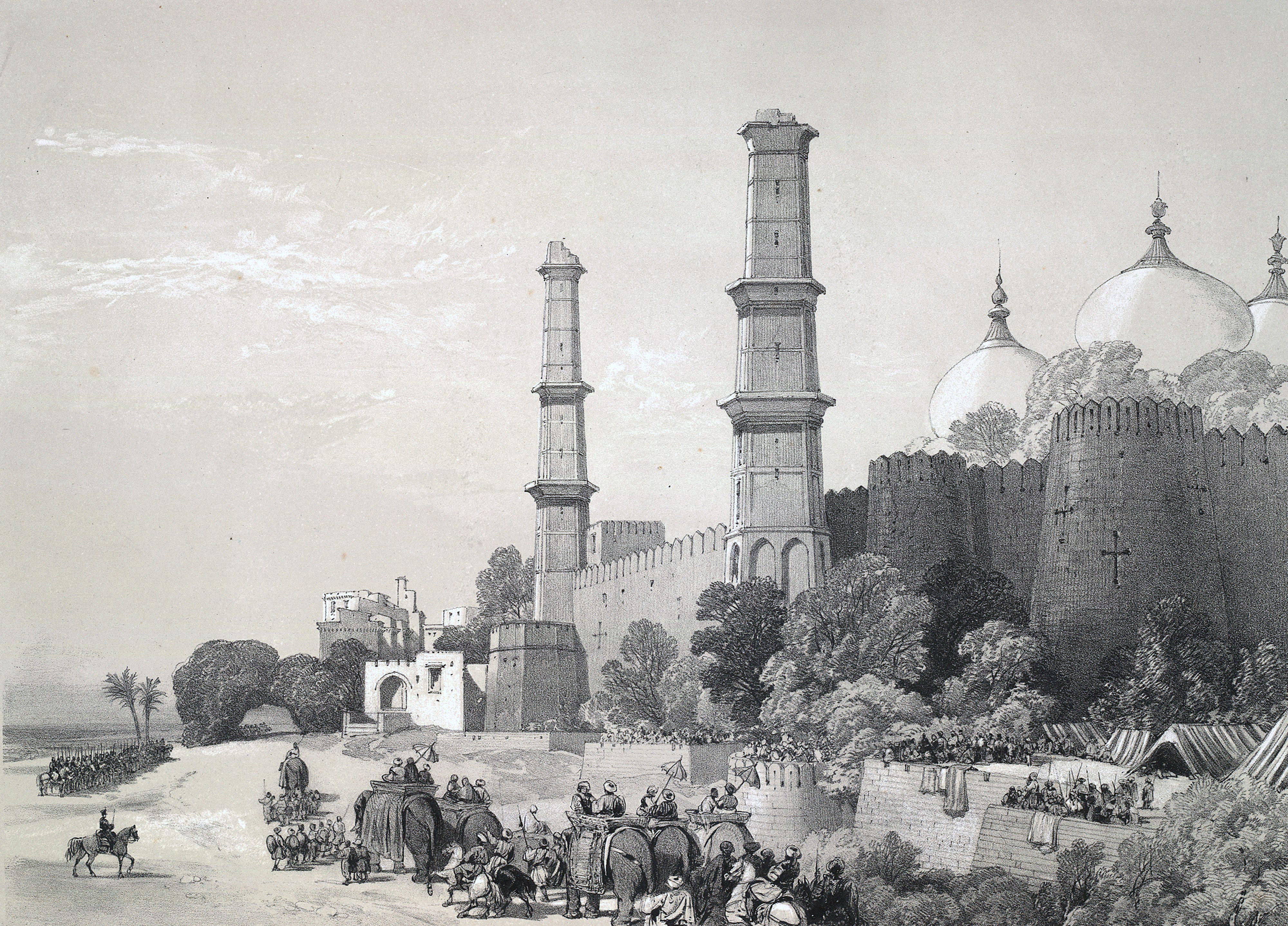 The child Maharajah of Lahore, Duleep Singh enters his palace in Lahore, from the Parade Ground, accompanied by an escort of British troops commanded by Brigadier Cureton, following the First Anglo-Sikh War (1845-46).